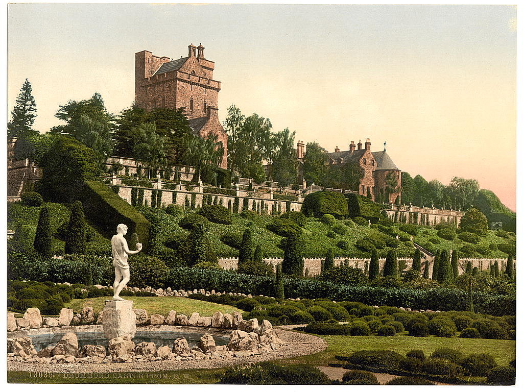 [Drummond Castle from S.W. (i.e., Southwest), Scotland] [between ca. 1890 and ca. 1900]. 1 photomechanical print : photochrom, color. Notes: Title from the Detroit Publishing Co., catalogue J--foreign section. Detroit, Mich. : Detroit Photographic Company, 1905. Print no. "13035". Forms part of: Views of landscape and architecture in Scotland in the Photochrom print collection. Subjects: Scotland--Muthill. Format: Photochrom prints--Color--1890-1900. Rights Info: No known restrictions on reproduction. Repository: Library of Congress, Prints and Photographs Division, Washington, D.C. 20540 USA, Part Of: Views of landscape and architecture in Scotland (DLC) 2001703567 More information about the Photochrom Print Collection is available at Persistent URL: Call Number: LOT 13407, no. 055 [item]